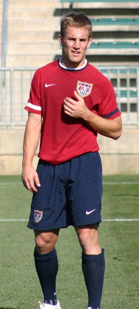 Taylor Twellman, during USMNT practice